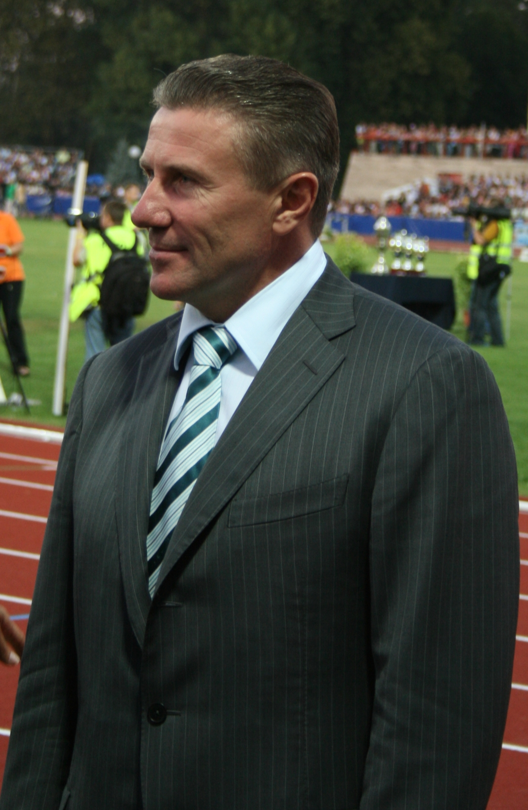 Sergey_Bubka, Zagreb, 2009.